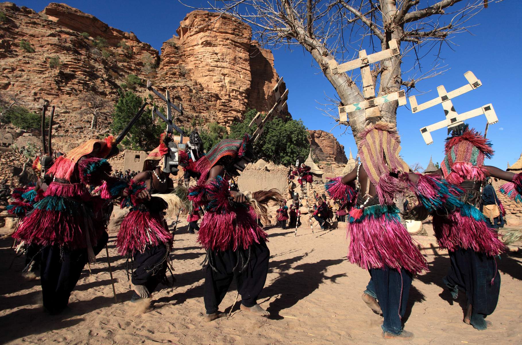 Dogon mask dance This photo has been taken in the country: Mali